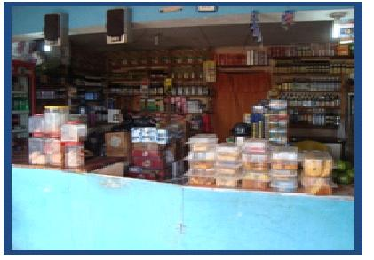 parte de la economia